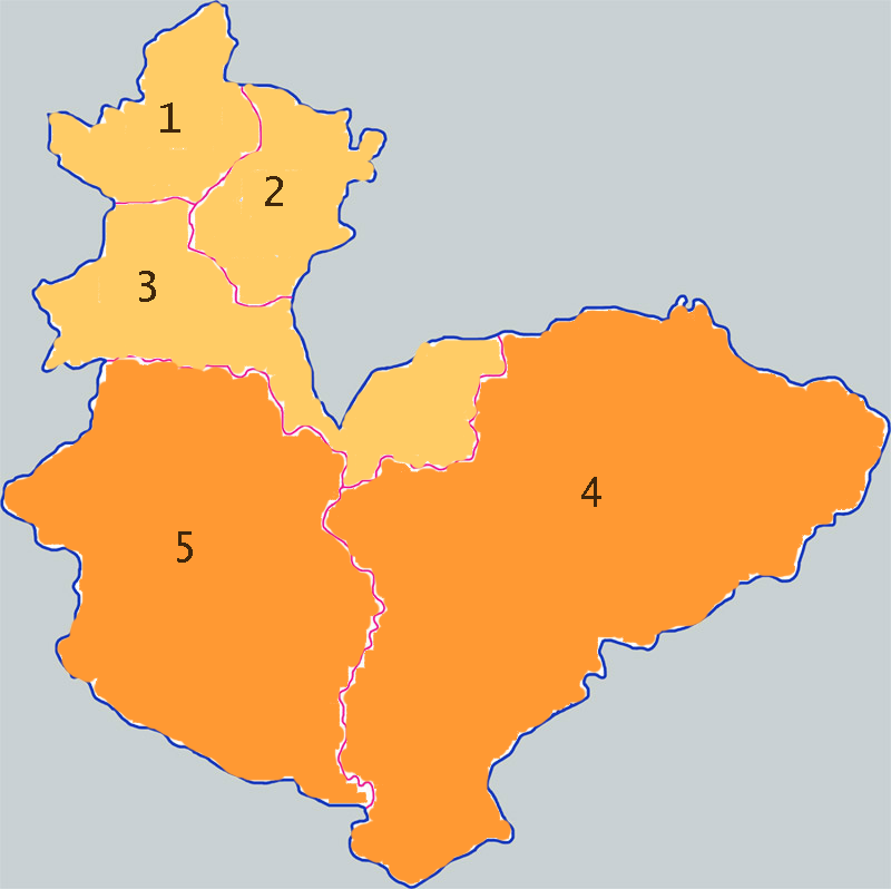 Municipalities of Hebi city, China